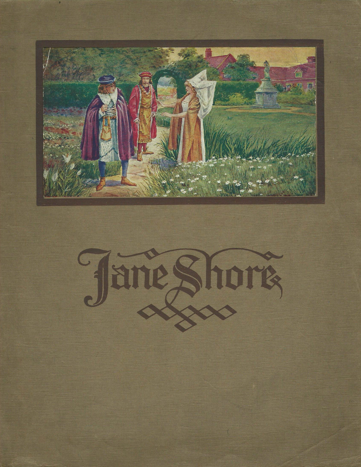 Publicity cover for Jane Shore printed 1915 (public domain)